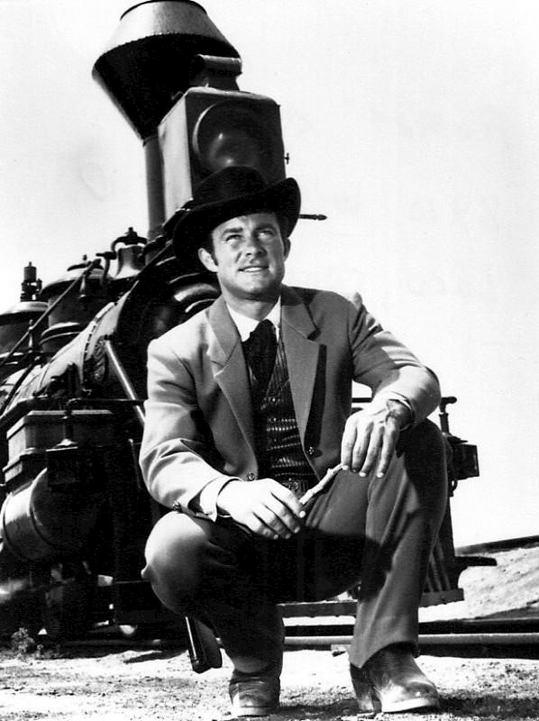 Photo of Robert Conrad as James T. West from the television program The Wild Wild West.